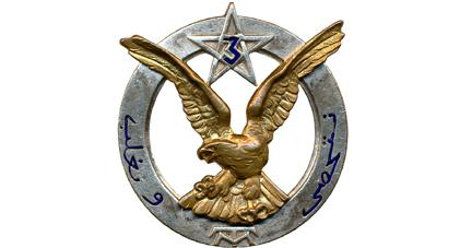 Regimental badge of the 3rd Rifle Regiment Moroccans (France).